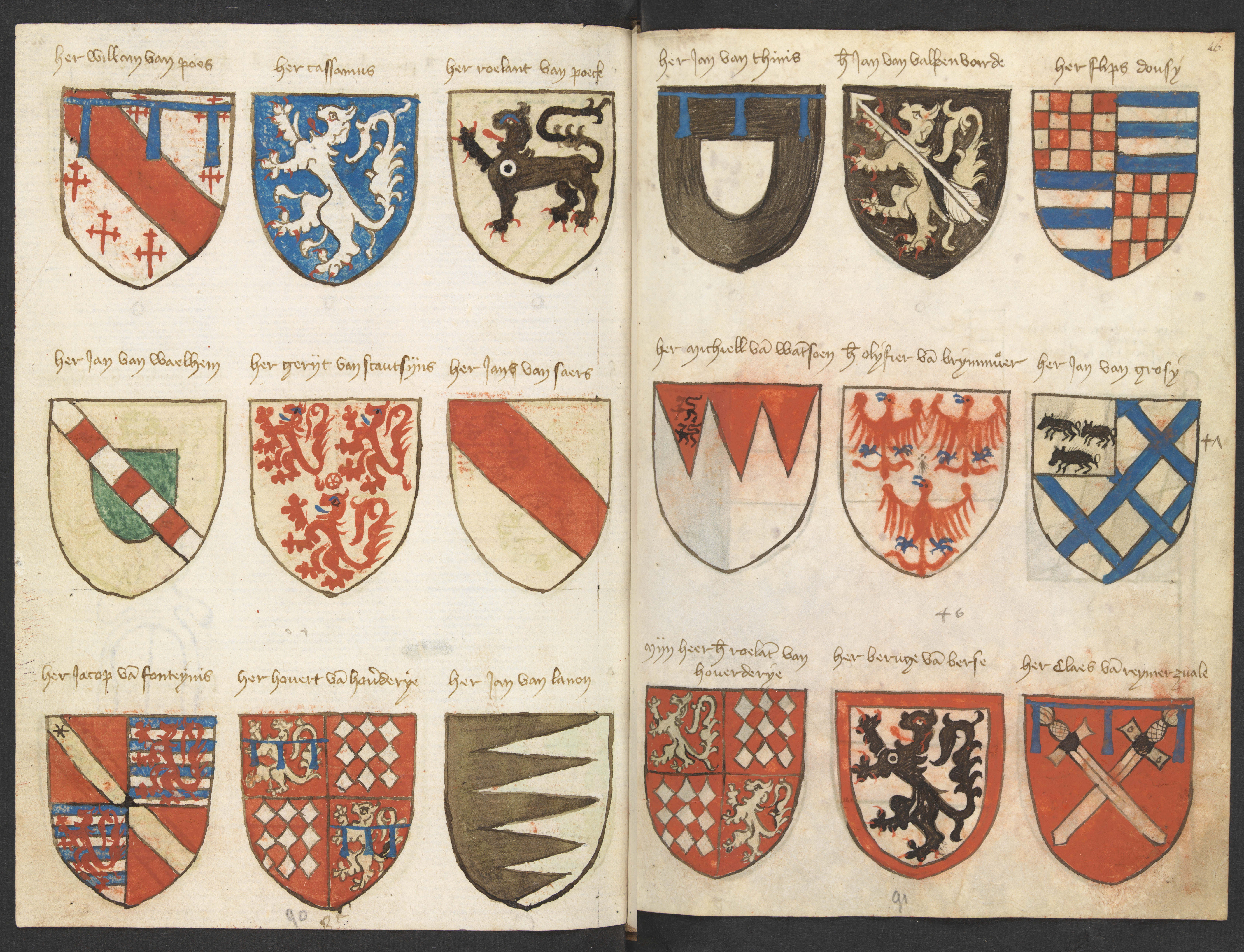 Lefthand side folio 045v; righthand side folio 046r from the Beyeren armorial / Wapenboek Beyeren